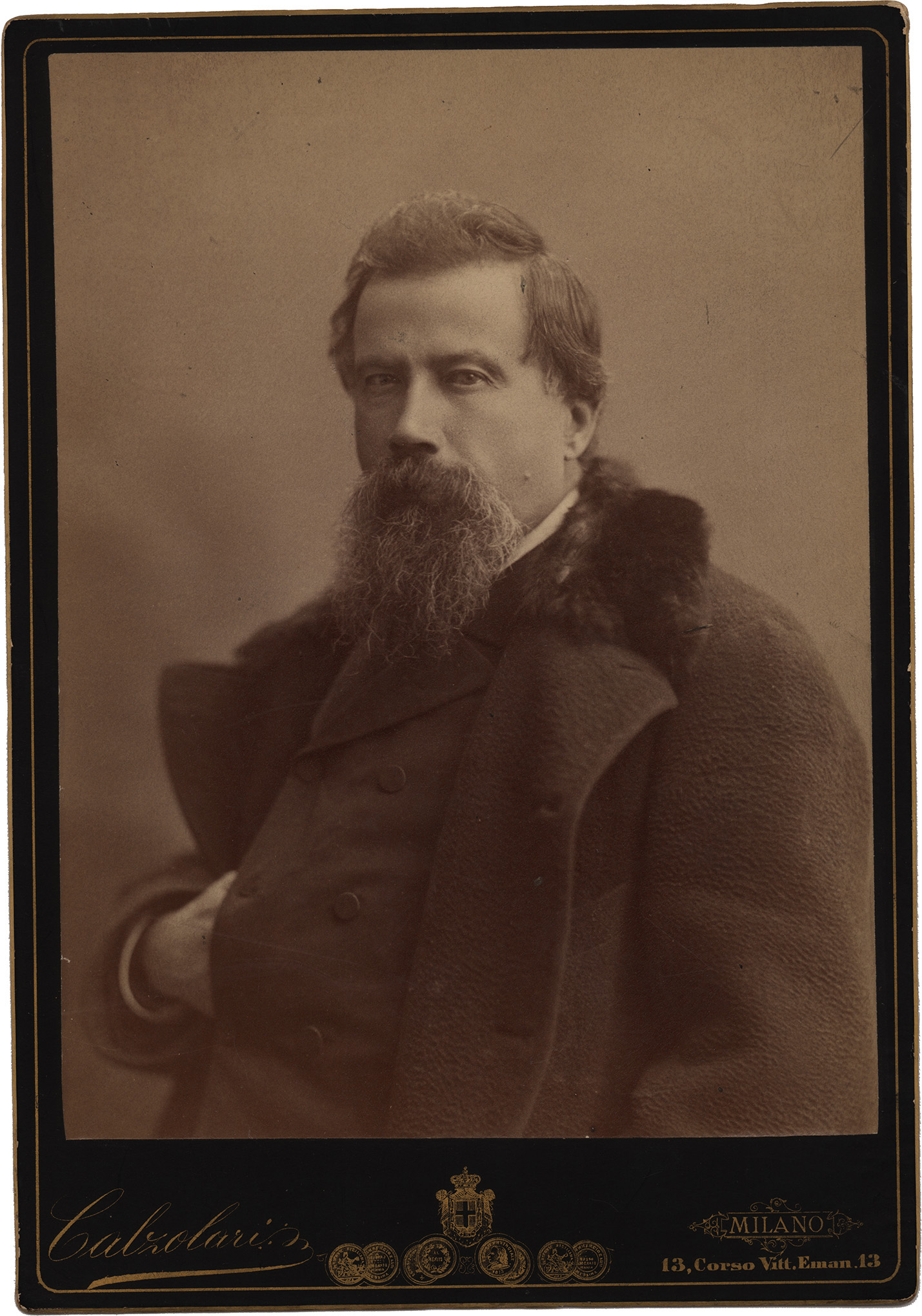 Portrait of Amilcare Ponchielli, composer (1834-1886). Photo by Calzolari e Spada, Milano, before 1886.